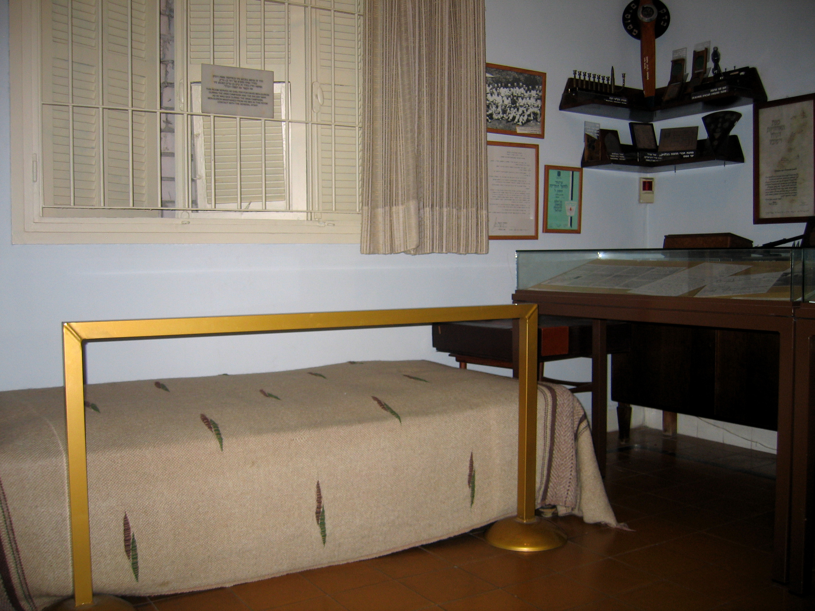 David Ben Gurion's House at Tel Aviv-Yaffo